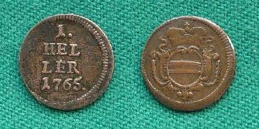 Austria (Habsburg monarchy): 1 heller 1765, KM# 1975.